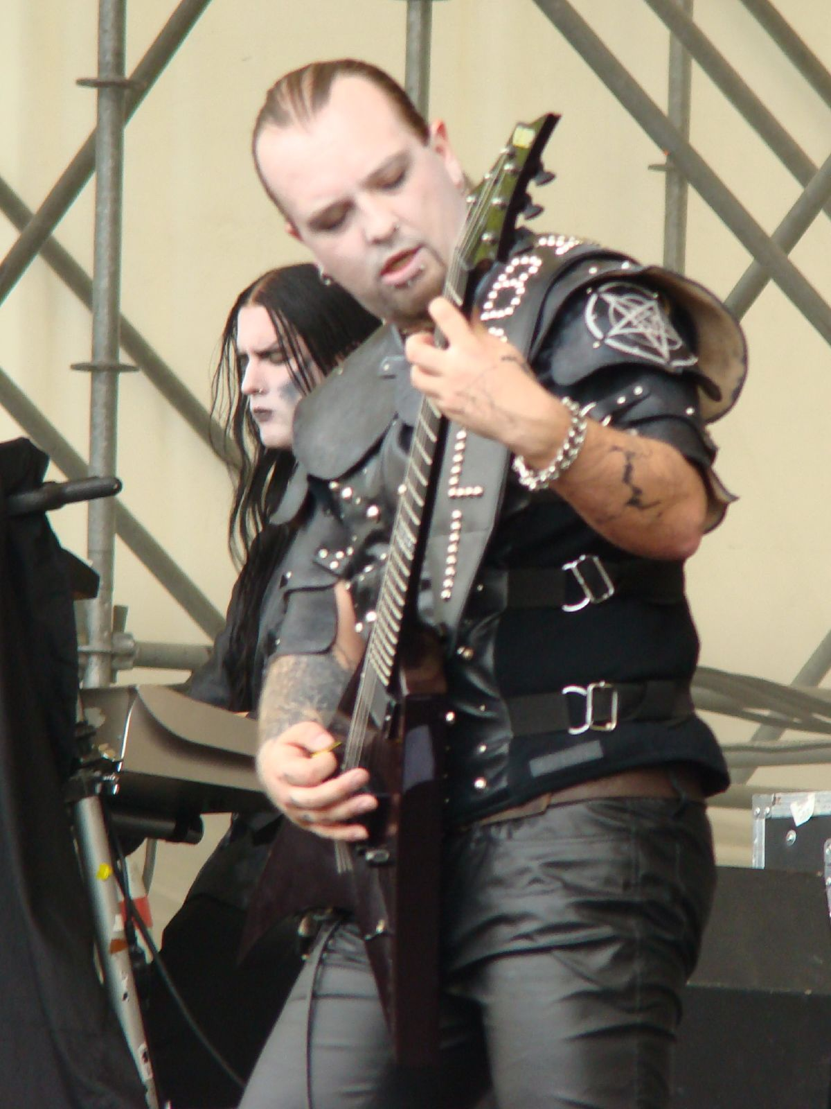 Silenoz and Mustis of Dimmu Borgir playing at Gods of Metal 2007.